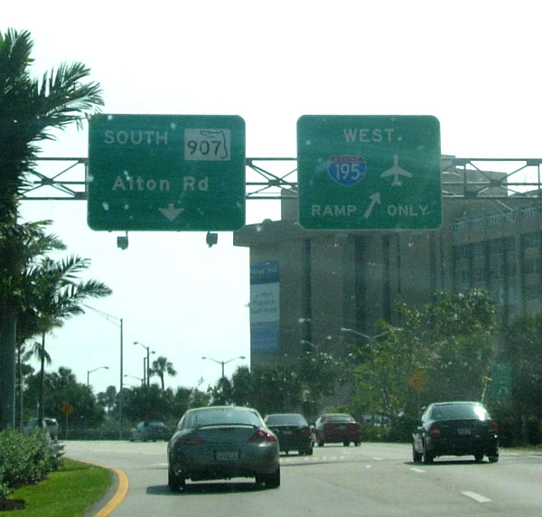 This image was photographed by Tv's emory in September 2005.